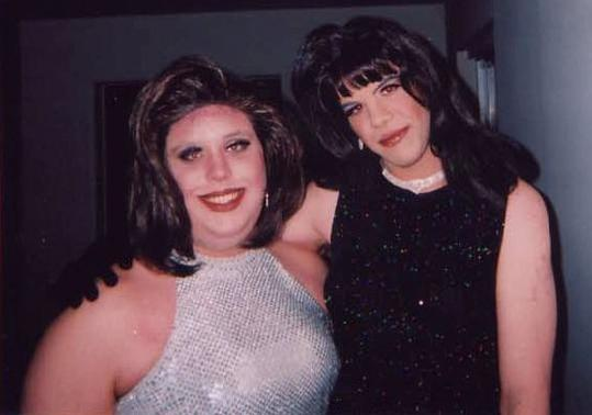 Two Drag Queens